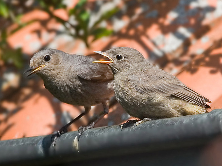 Recently fledged Black Redstart (Phoenicurus ochruros gibraltariensis) with mother (left)